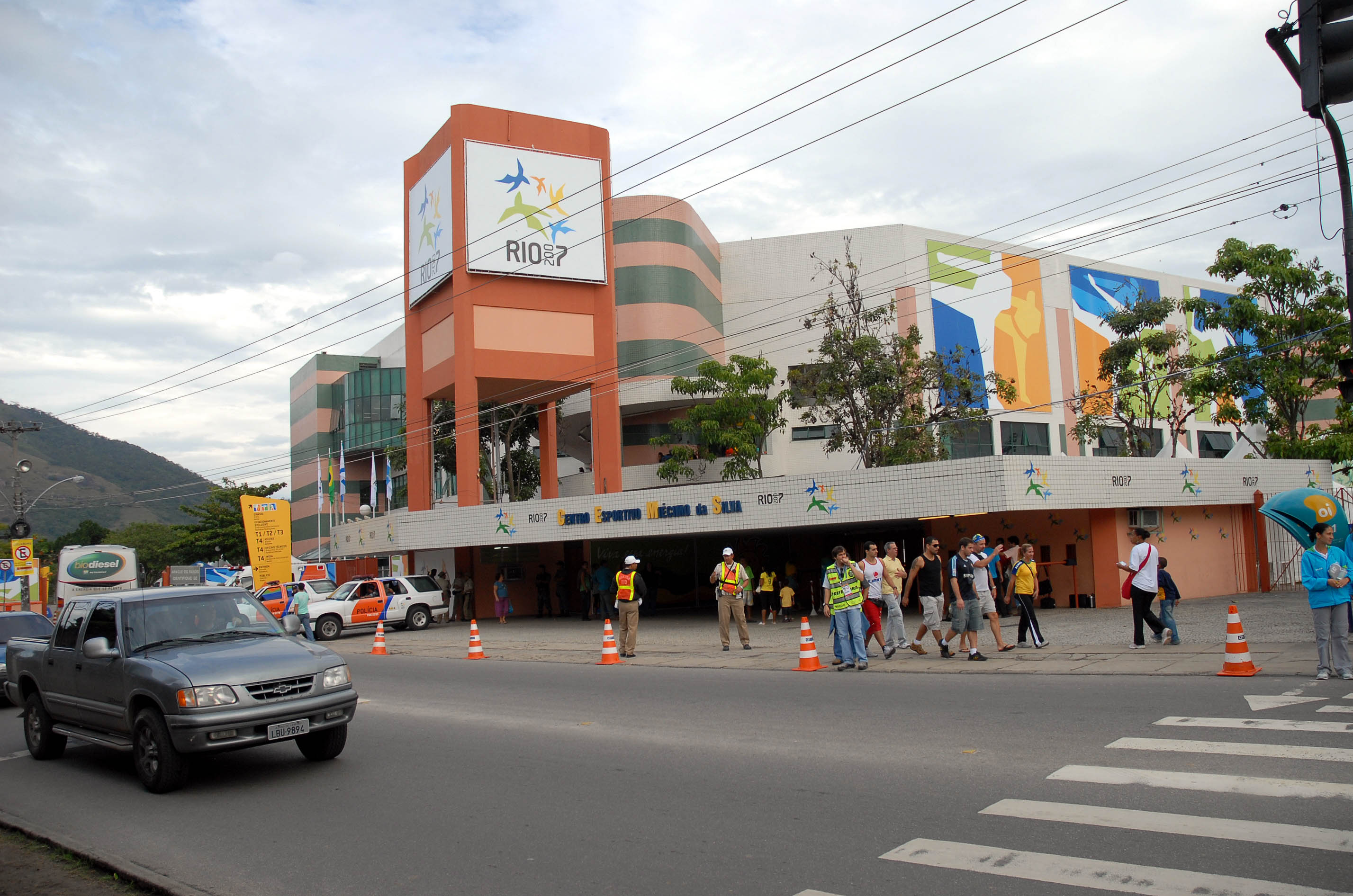 Front of the Miécimo da Silva Complex, venue of several events in the 2007 Pan American Games in Rio de Janeiro